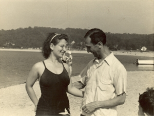 Salvador and Zella Luria on the beach at Cold Spring Harbor. Photographic Print.